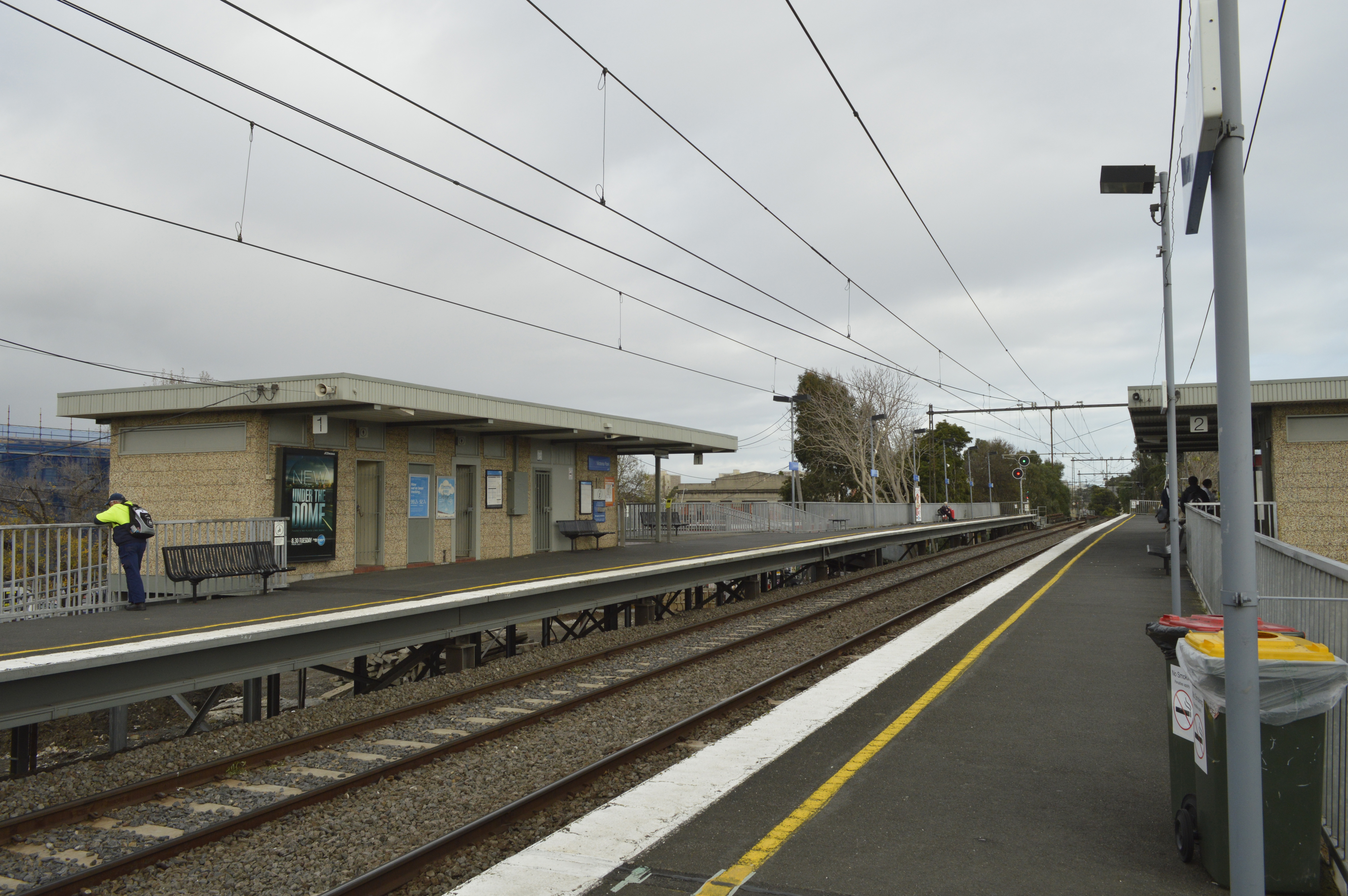 View from platform 1 in the down direction.